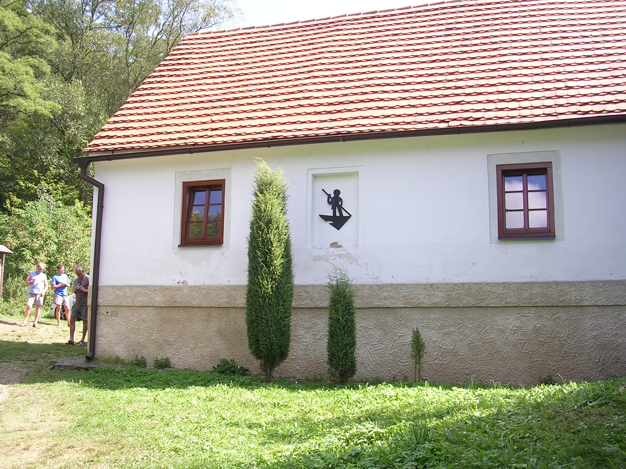 Branov-Luh, Rakovník District, Central Bohemian Region, the Czech Republic. A ferry house No 13. - Google Maps - Google Earth